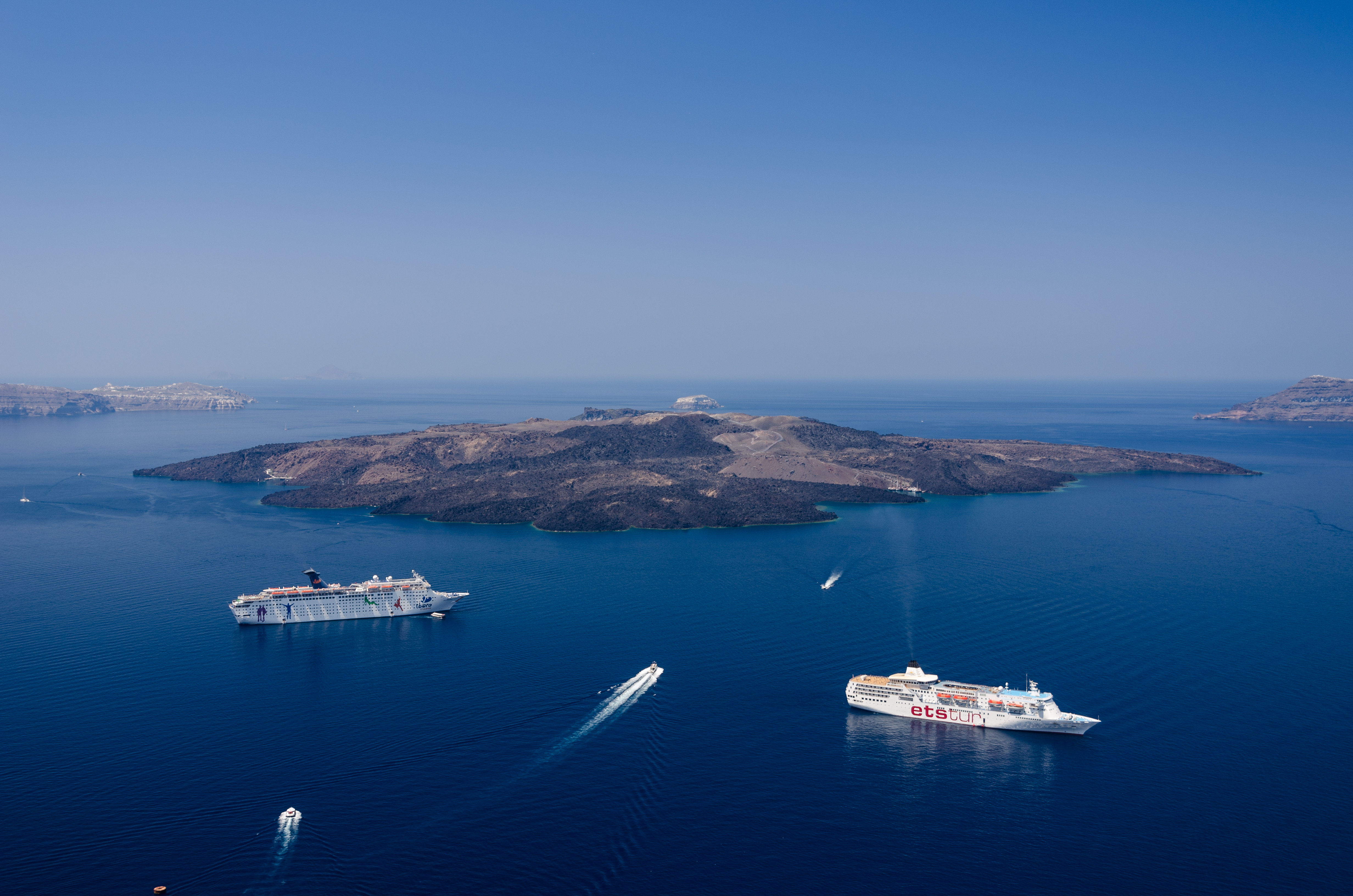 Caldera with Nea Kameni and cruise ships, Santorini, Greece.